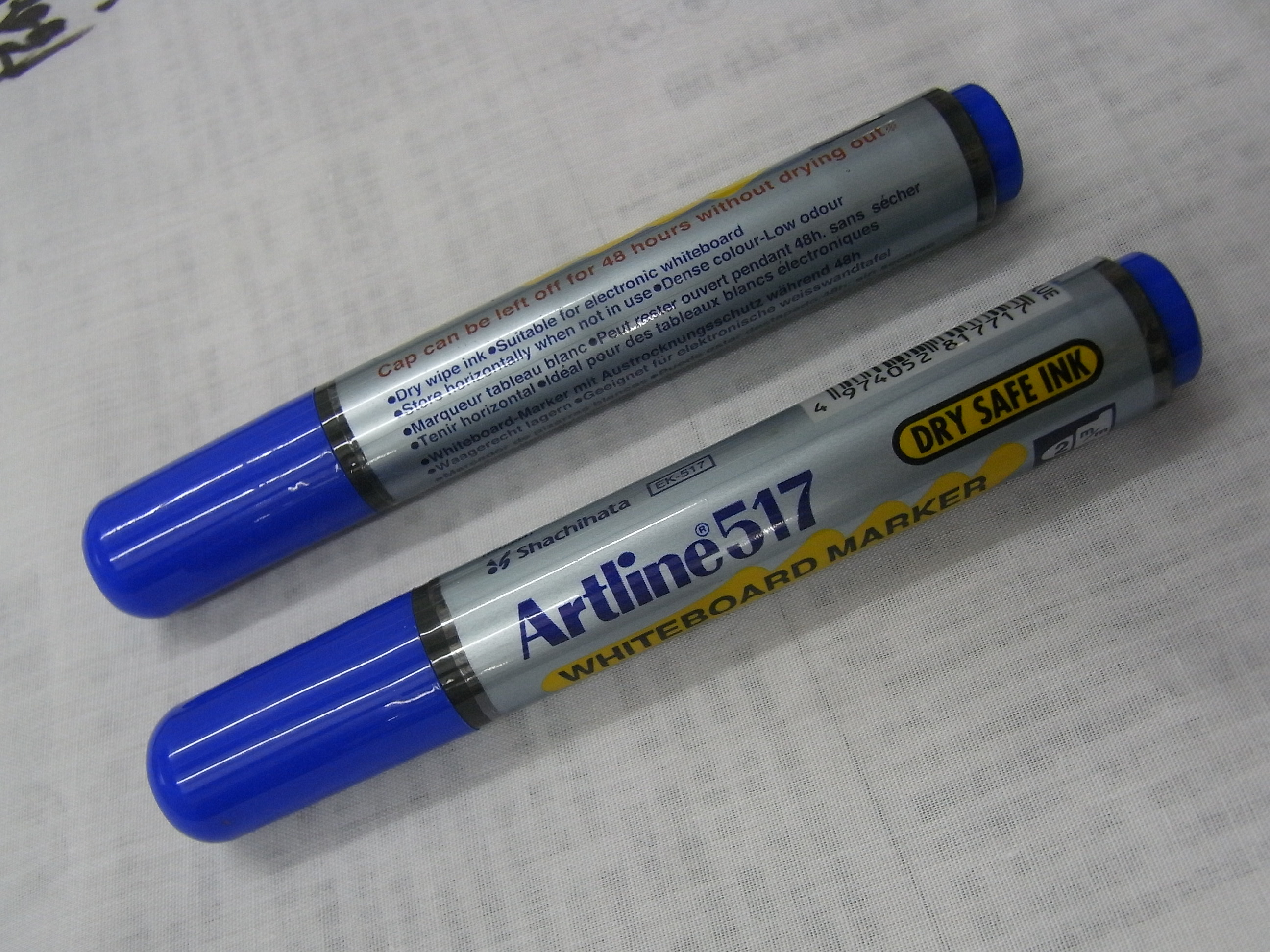 Artline 517 whiteboard markers pen in blue